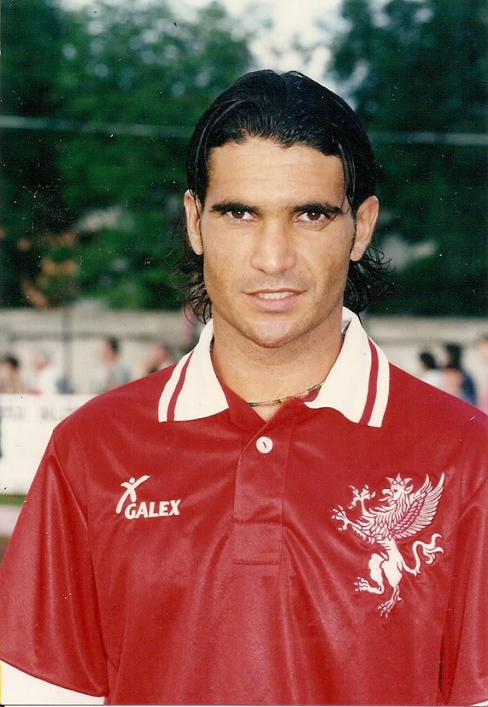 Pasquale Rocco with AC Perugia shirt (Serie A)